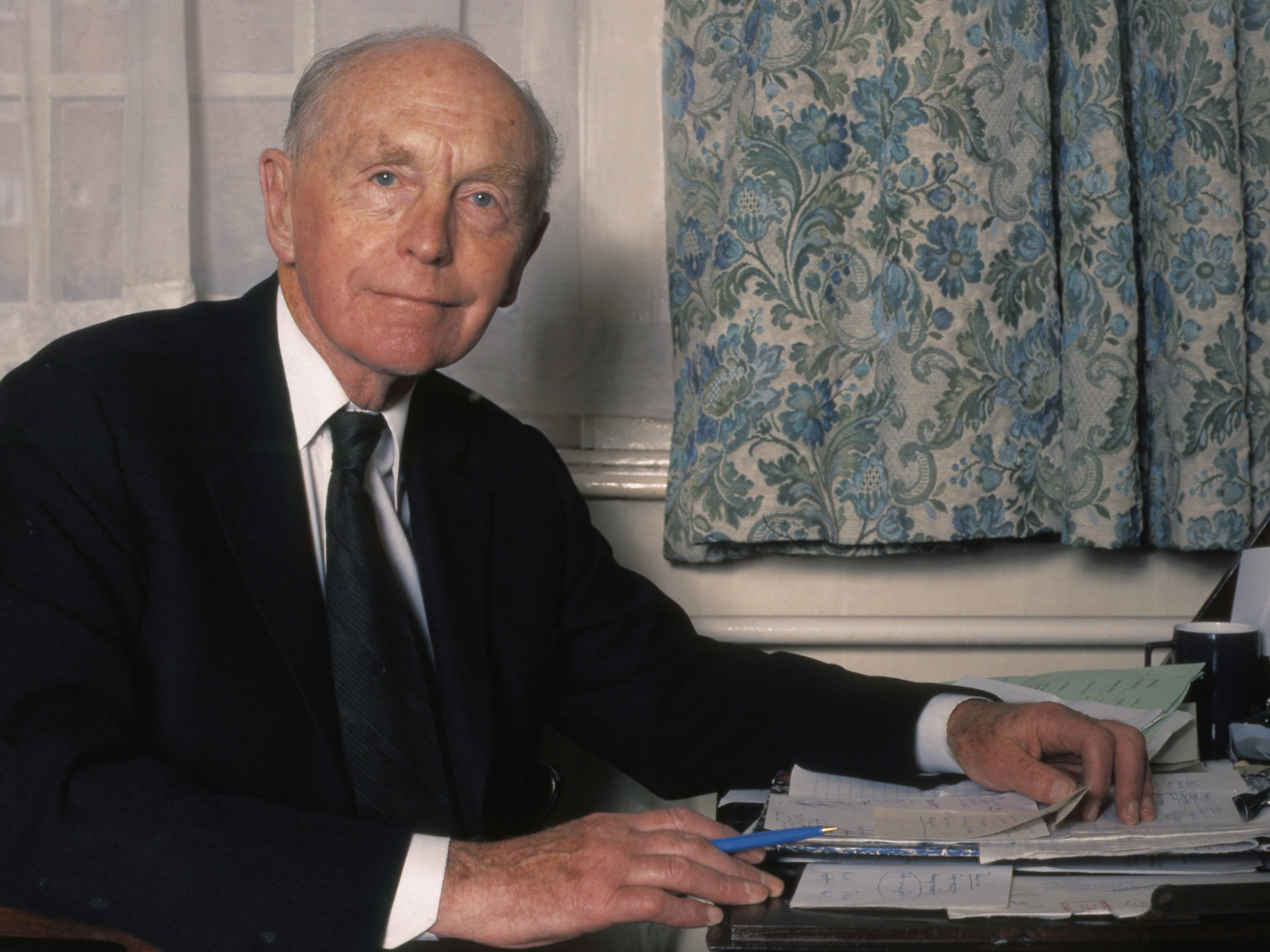 Lord Alec Douglas-Home taken in his apartment, Westminster, London